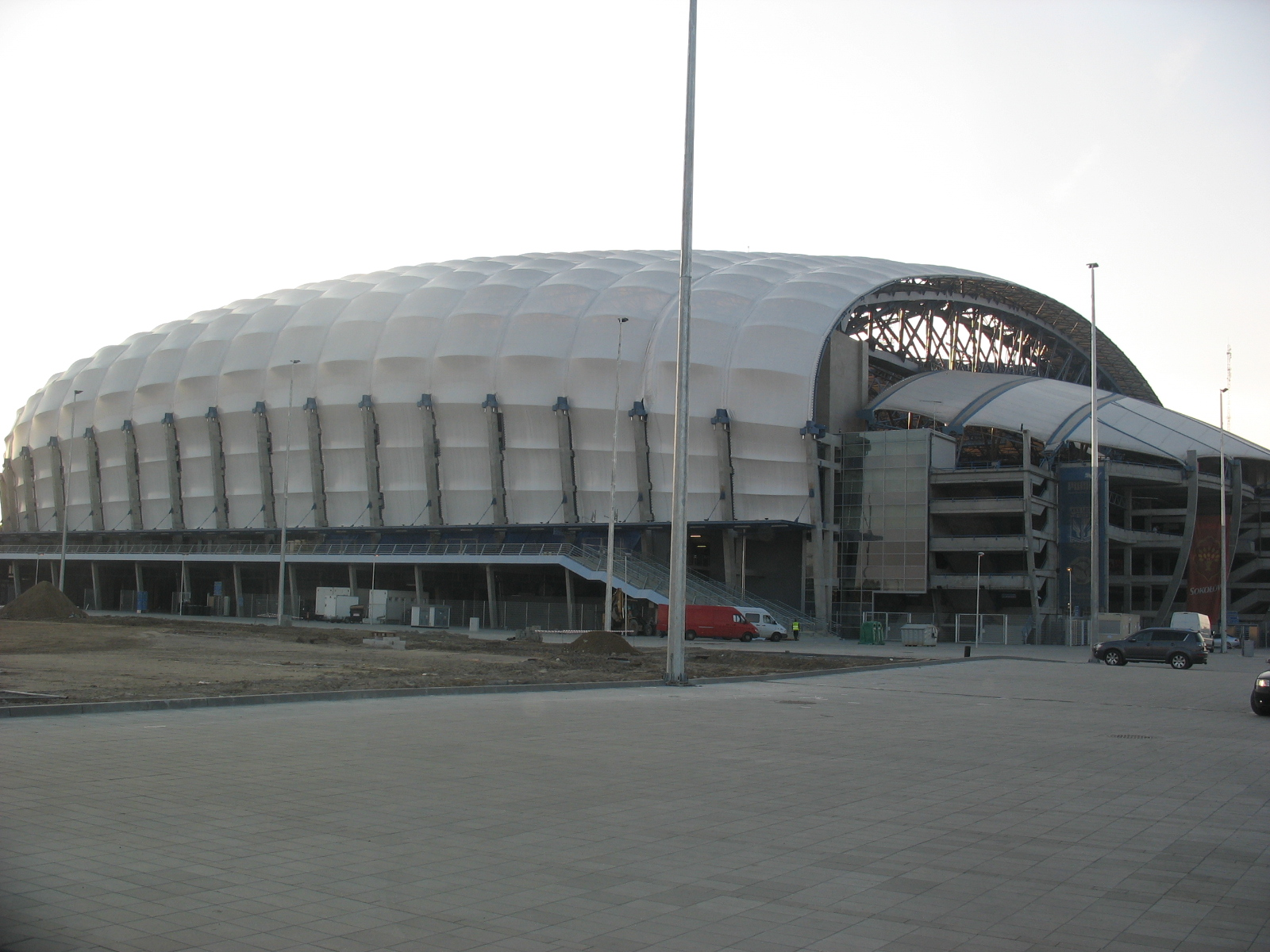 Multi-purpose stadium in Poznań.